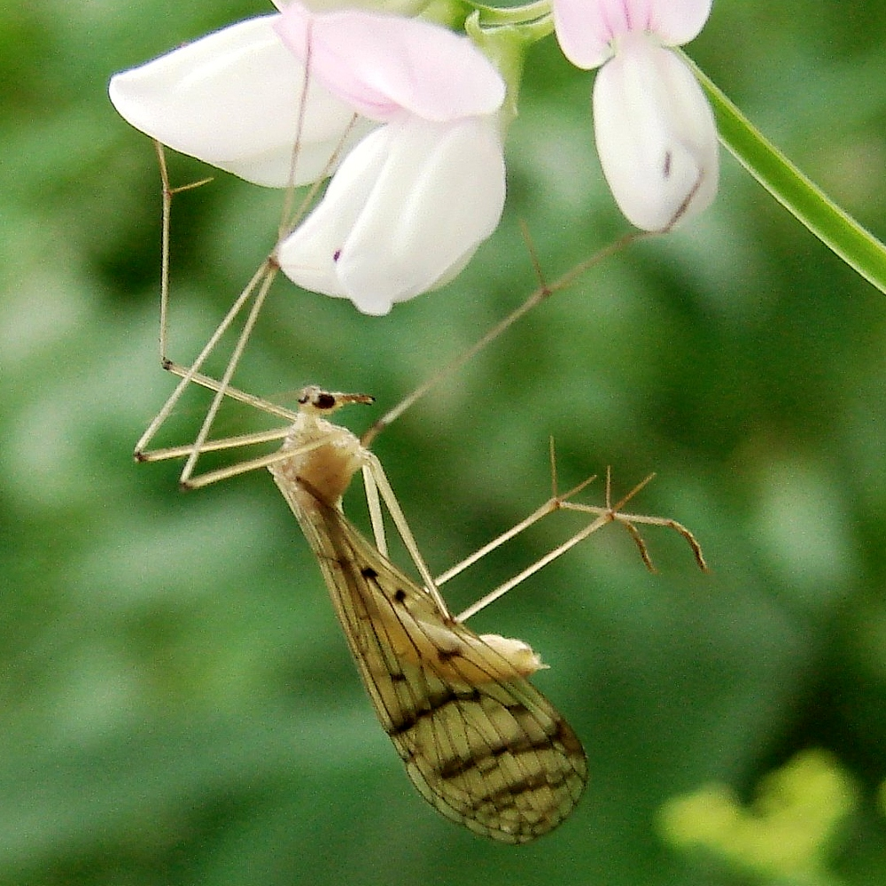 Hangingfly - Bittacus strigosus - These flies resemble craneflies but have four wings instead of two. Can be found hanging on plants using their front and/or middle legs. Cross Plains, WI, USA